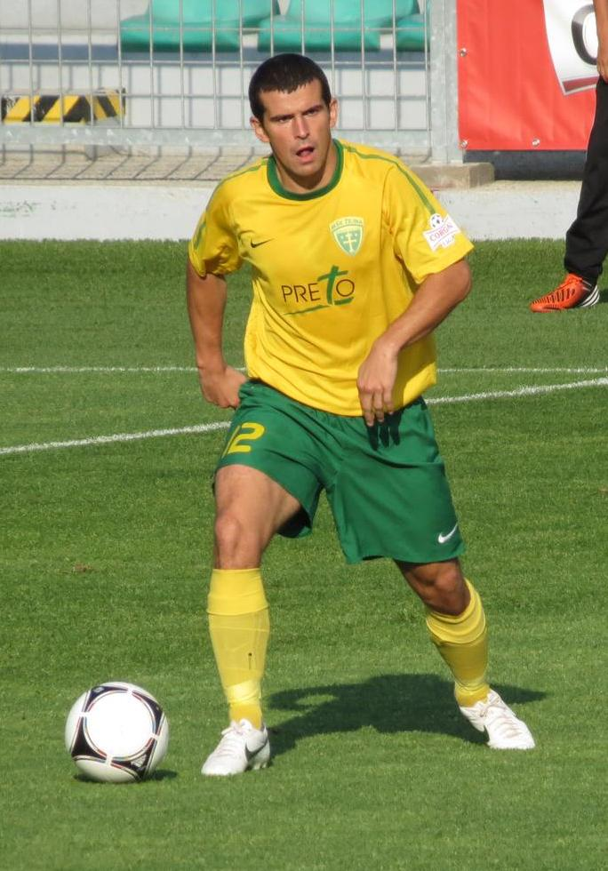 This is a phoro of Slovak footballer Viktor Pečovský